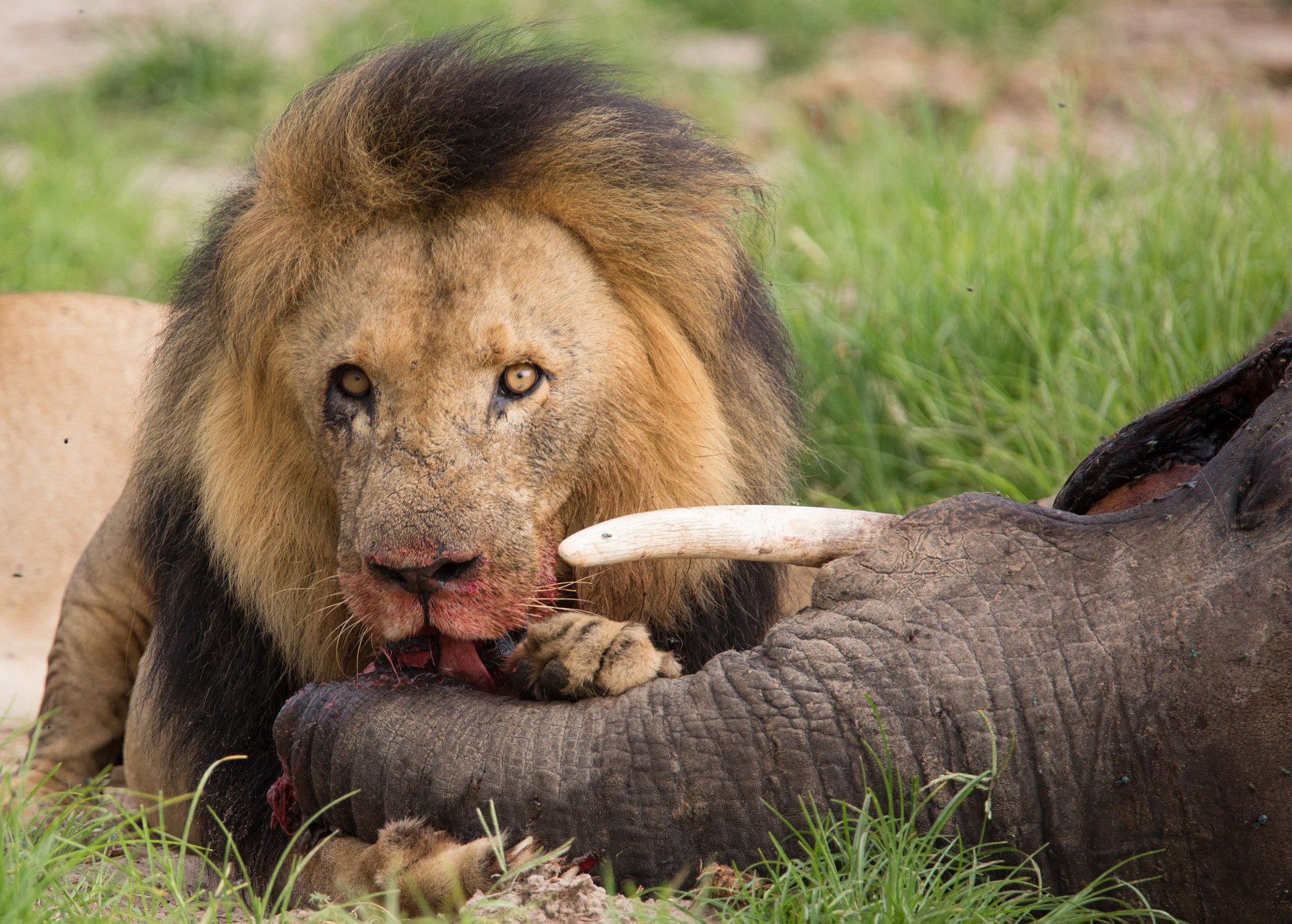 500px provided description: Trunk For Lunch [#Wildlife ,#Lion ,#Elephant ,#Safari ,#Chobe ,#Chobe river ,#Lion kill ,#Botwana ,#Black mane lion]